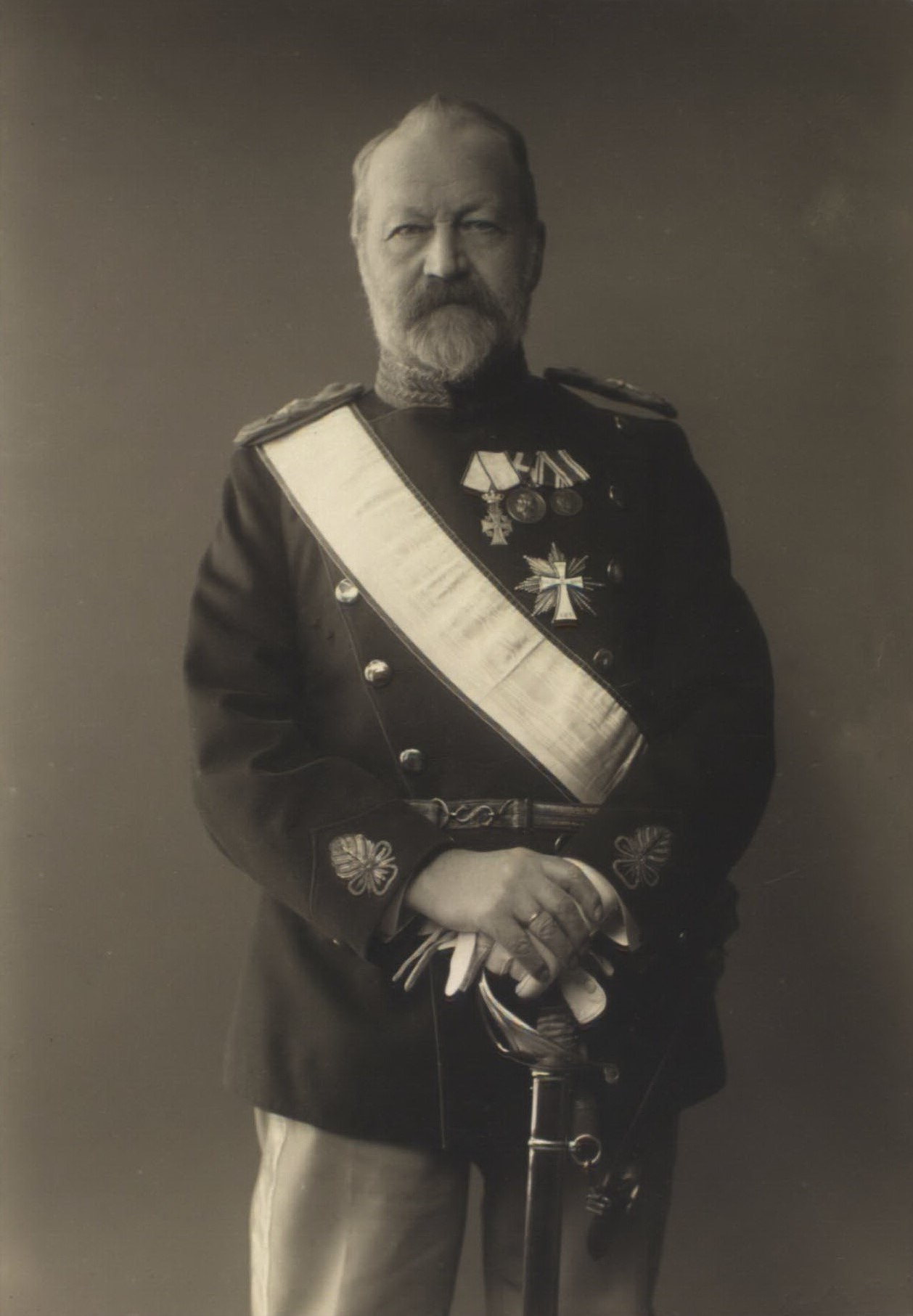 Vilhelm Hermann Oluf Madsen (1844-1917), Danish Major General, Minister of War, MP, inventor, and industrialist